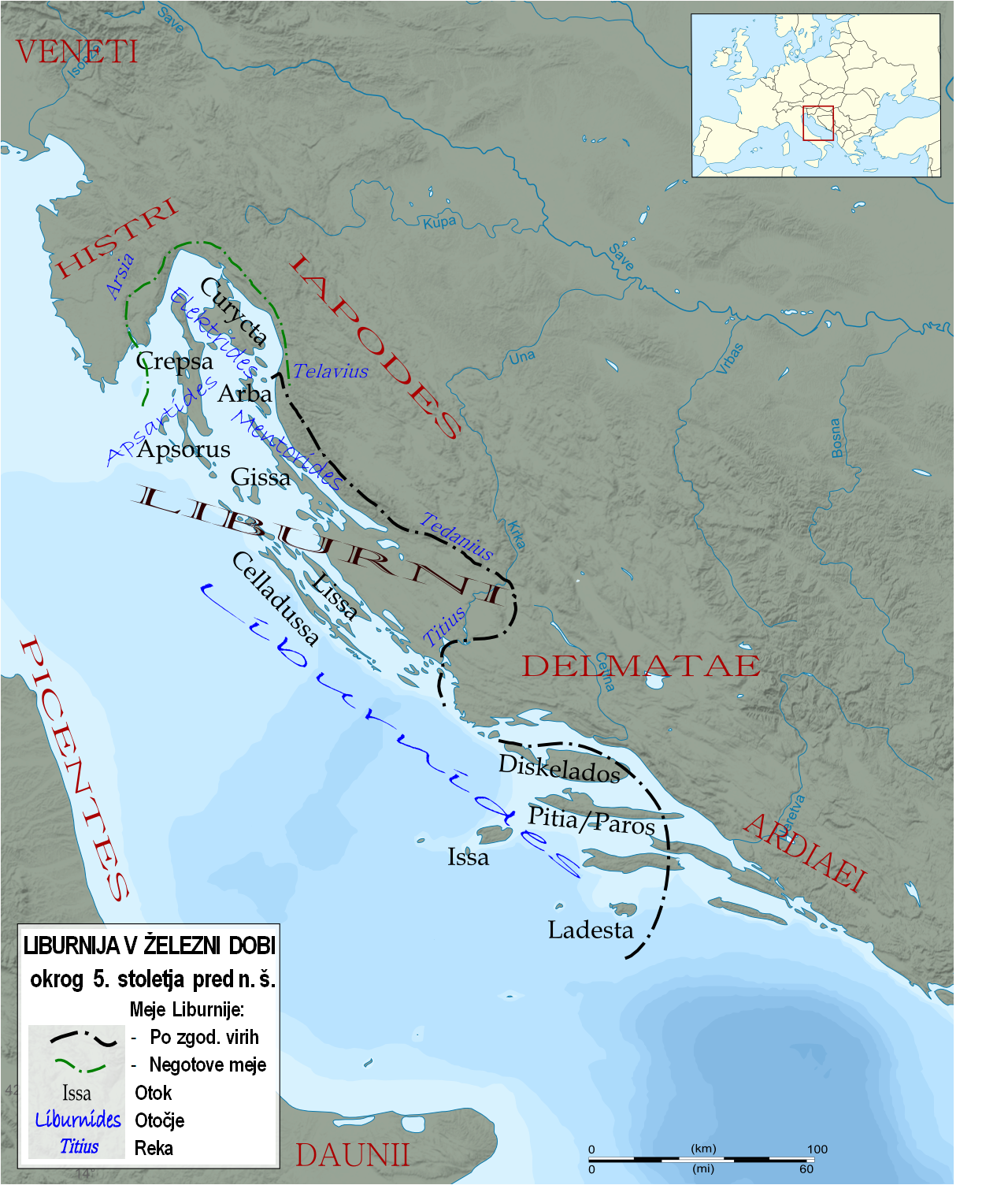 Liburnia and central Adriatic archipelago under Liburnian rule in the 5th century BC.